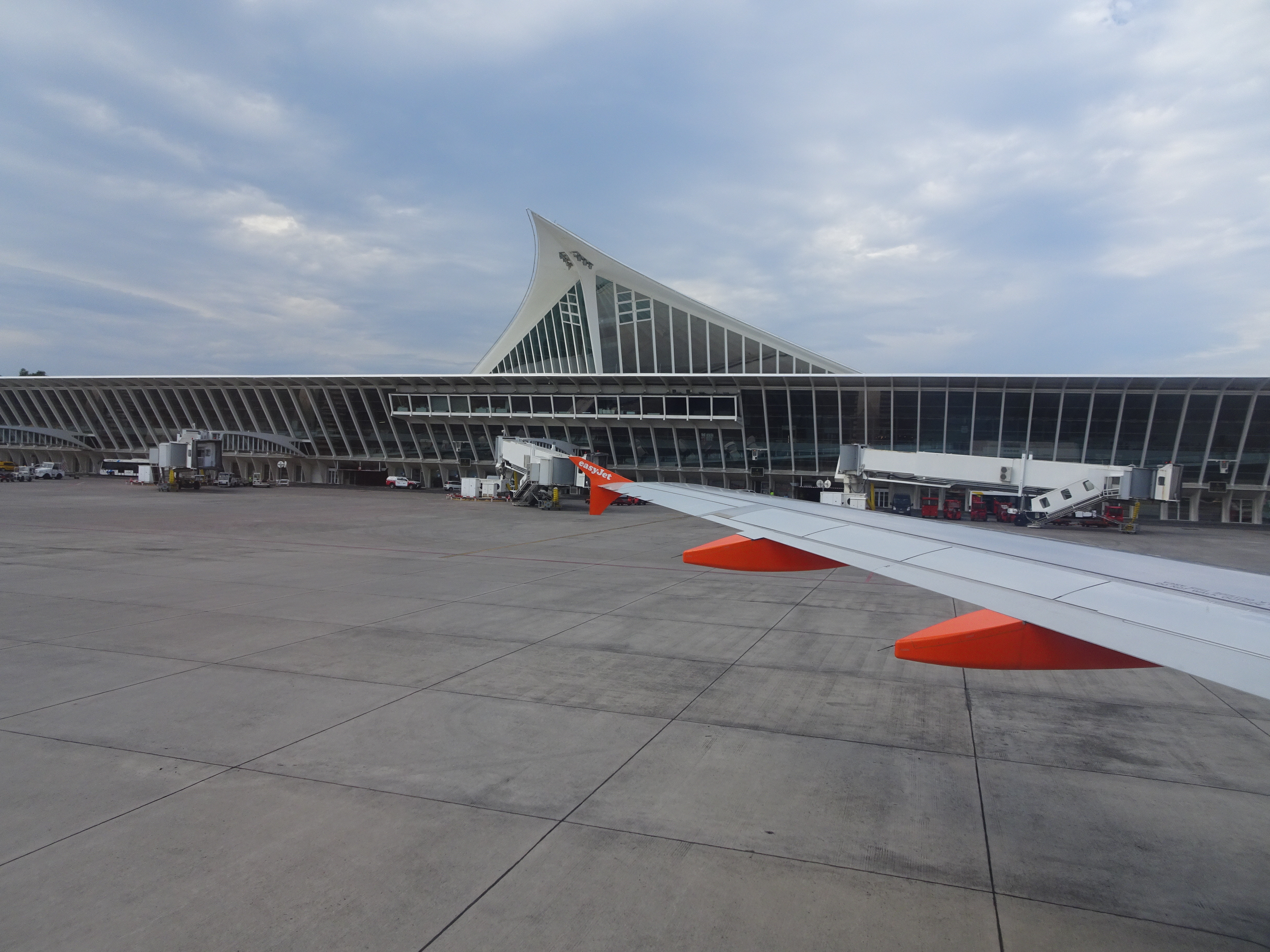 Bilbao Airport, 23 June 2019. Designed by Santiago Calatrava and opened in 2000. The terminal is nicknamed 'The Dove' because of the central glazed projection pictured.